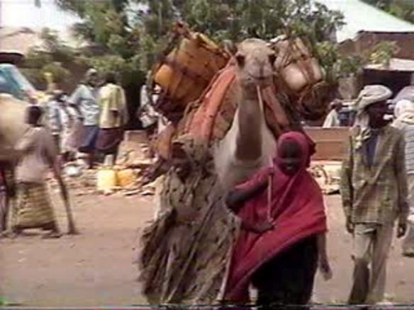 Street scene in Galdogob, Mudug, Somalia